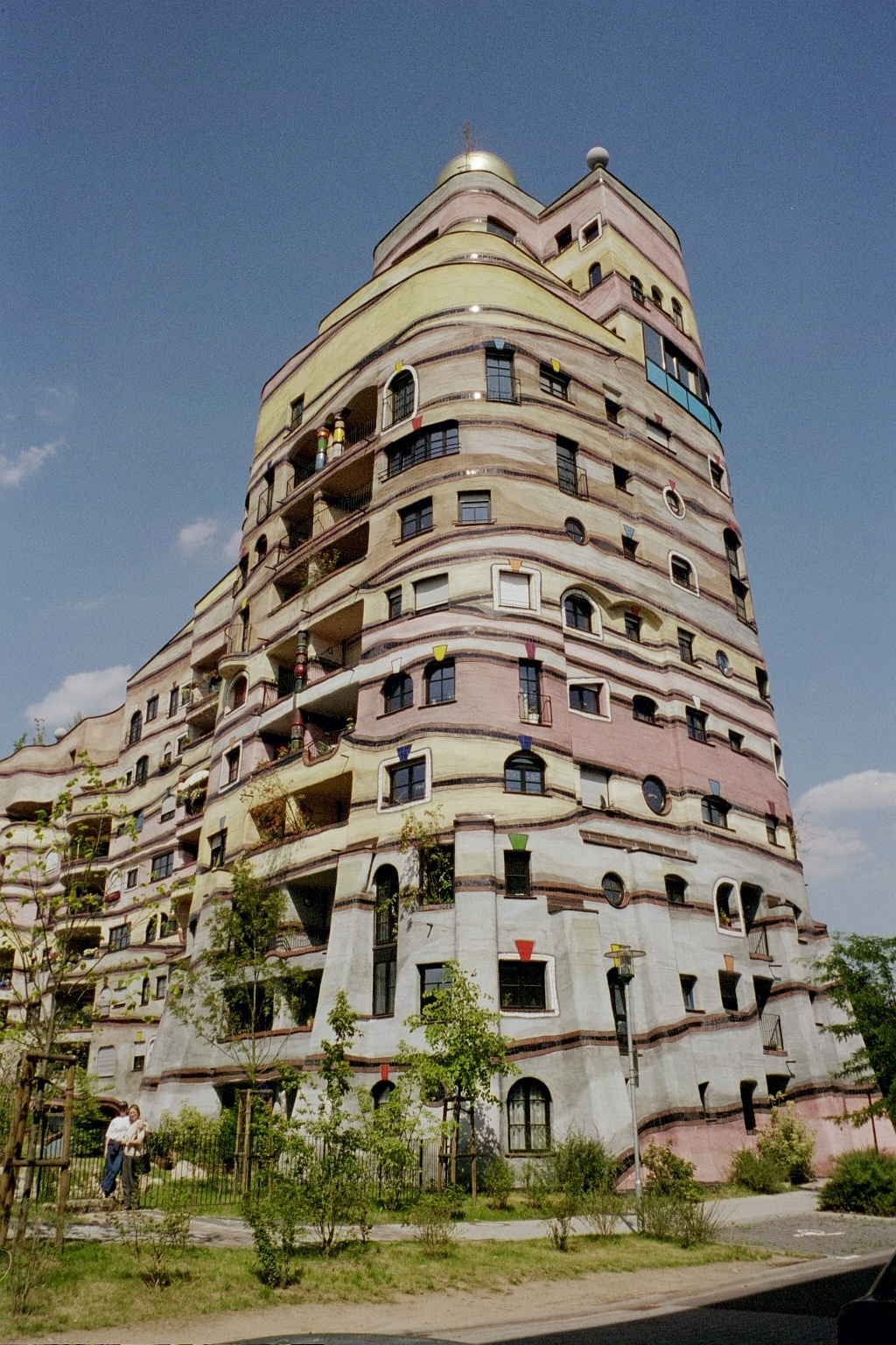 Taken by me in Darmstadt. This is a Hundertwasser building.